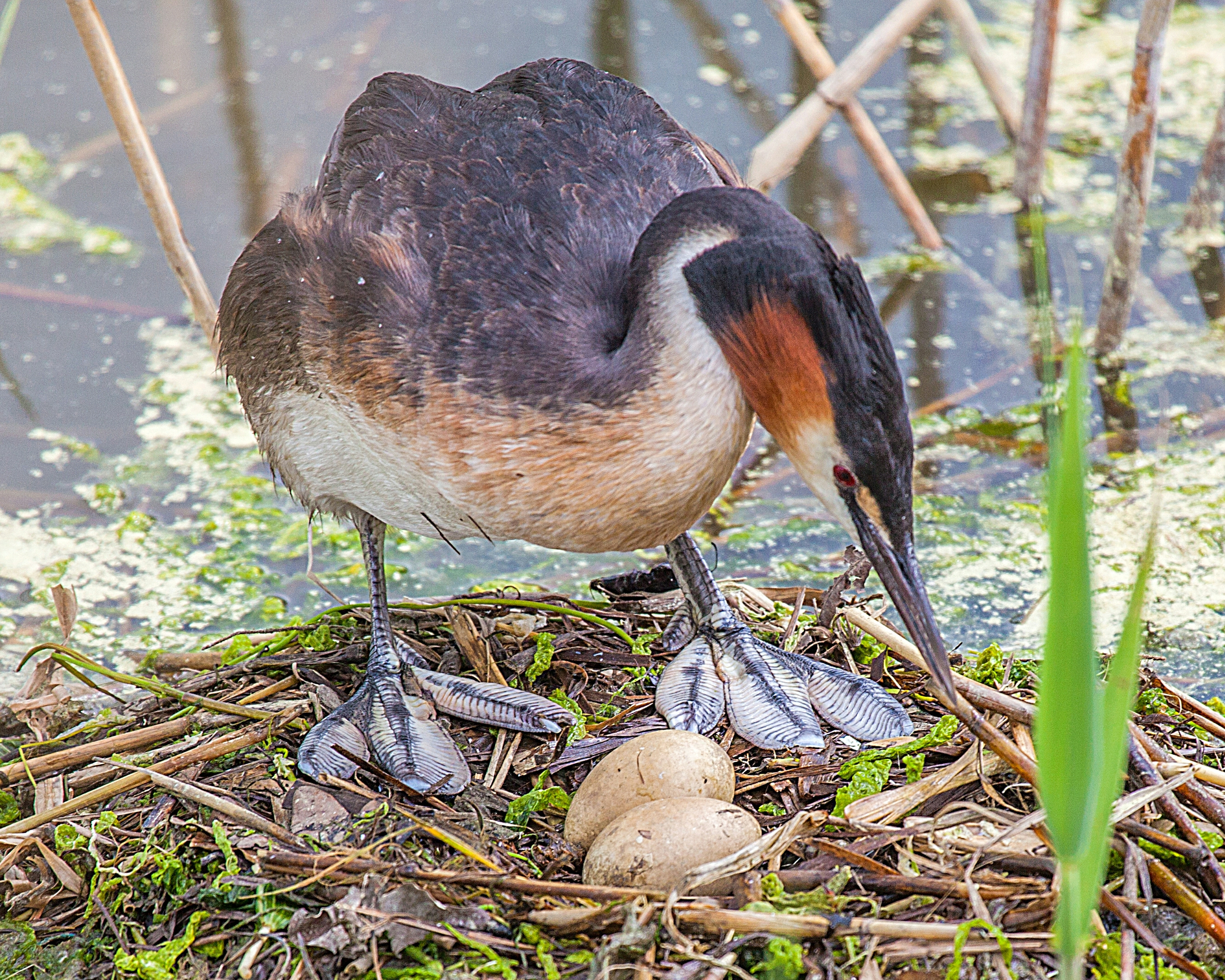 Podiceps cristatus or Grebe, attending nest with eggs in Vaxholm, Sweden, June 2013